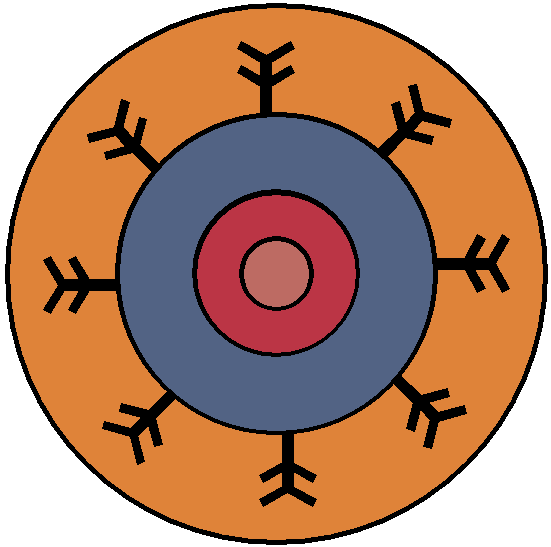 Shield pattern of Septimani Gemina in the early 5th century